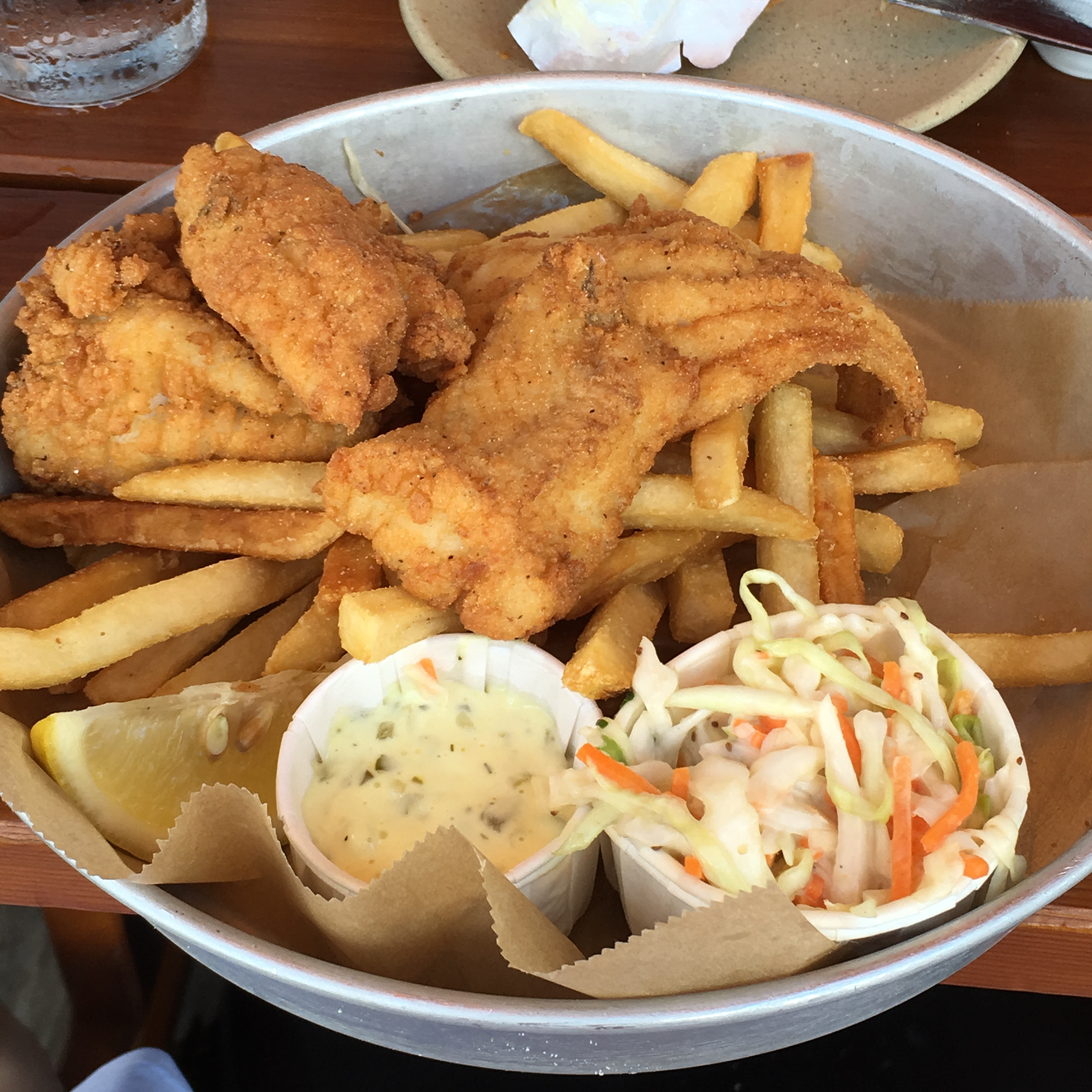 Fish and chips served with vegetables in an iron bowl